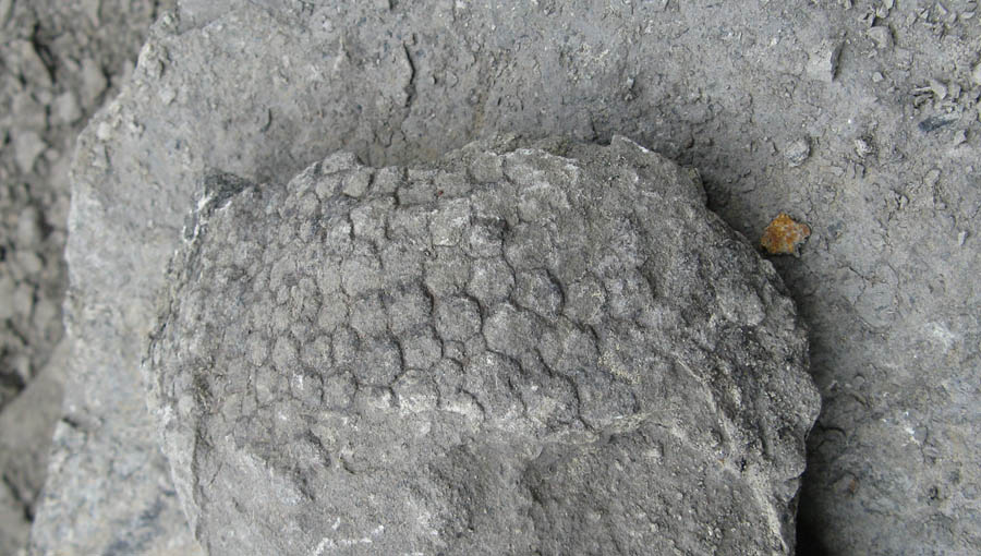 Skin impression of pachyrhinosaur Pipestone creek Alberta